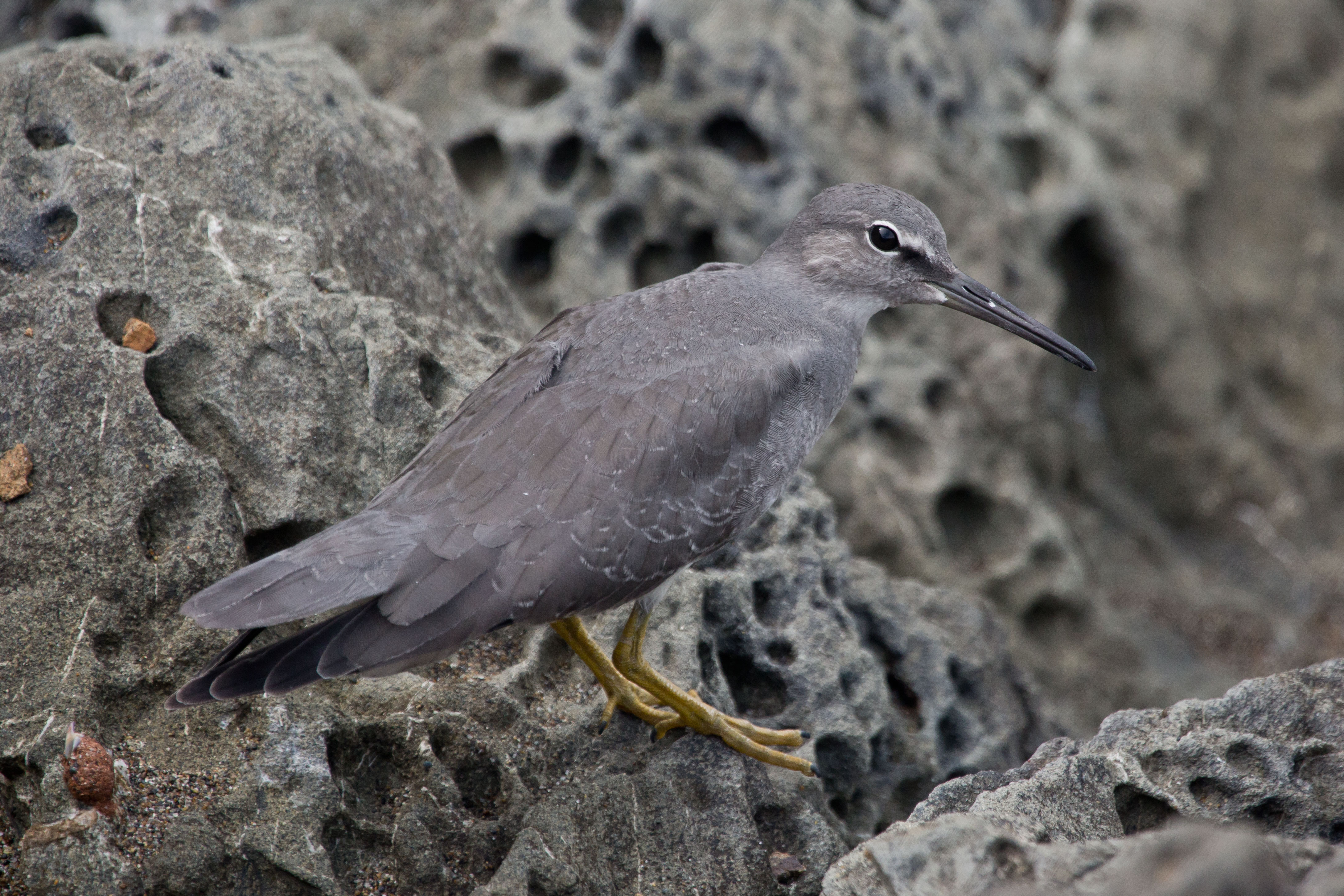 Wandering Tattler You are free to use this image with the following photo credit: Peter Pearsall/U.S. Fish and Wildlife Service